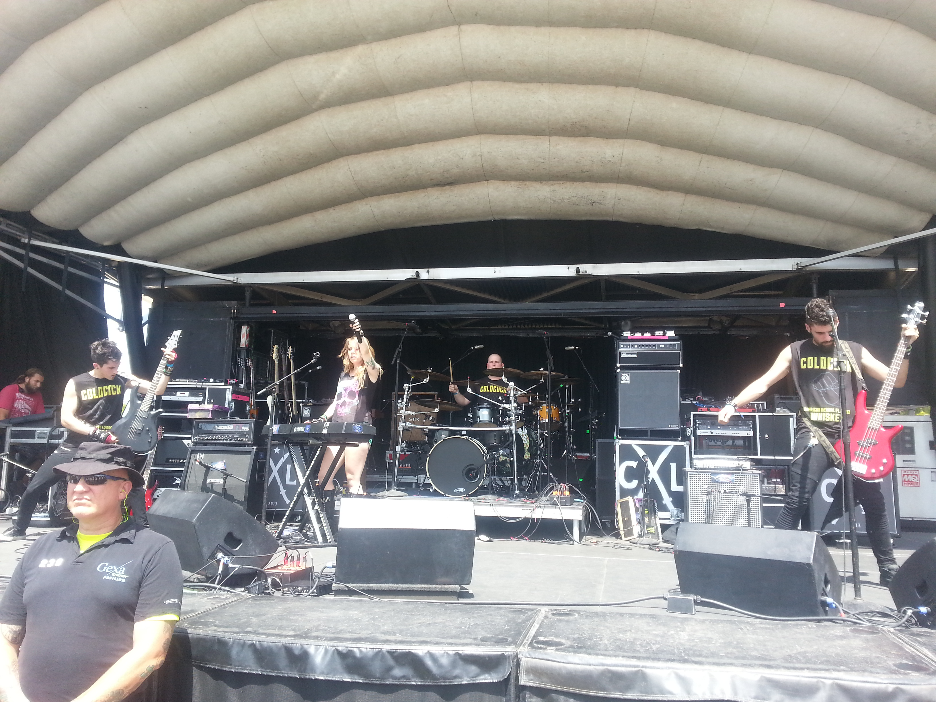 Alternative rock band Solice performing at Uproar Festival in Dallas, Texas USA on August 28, 2013.